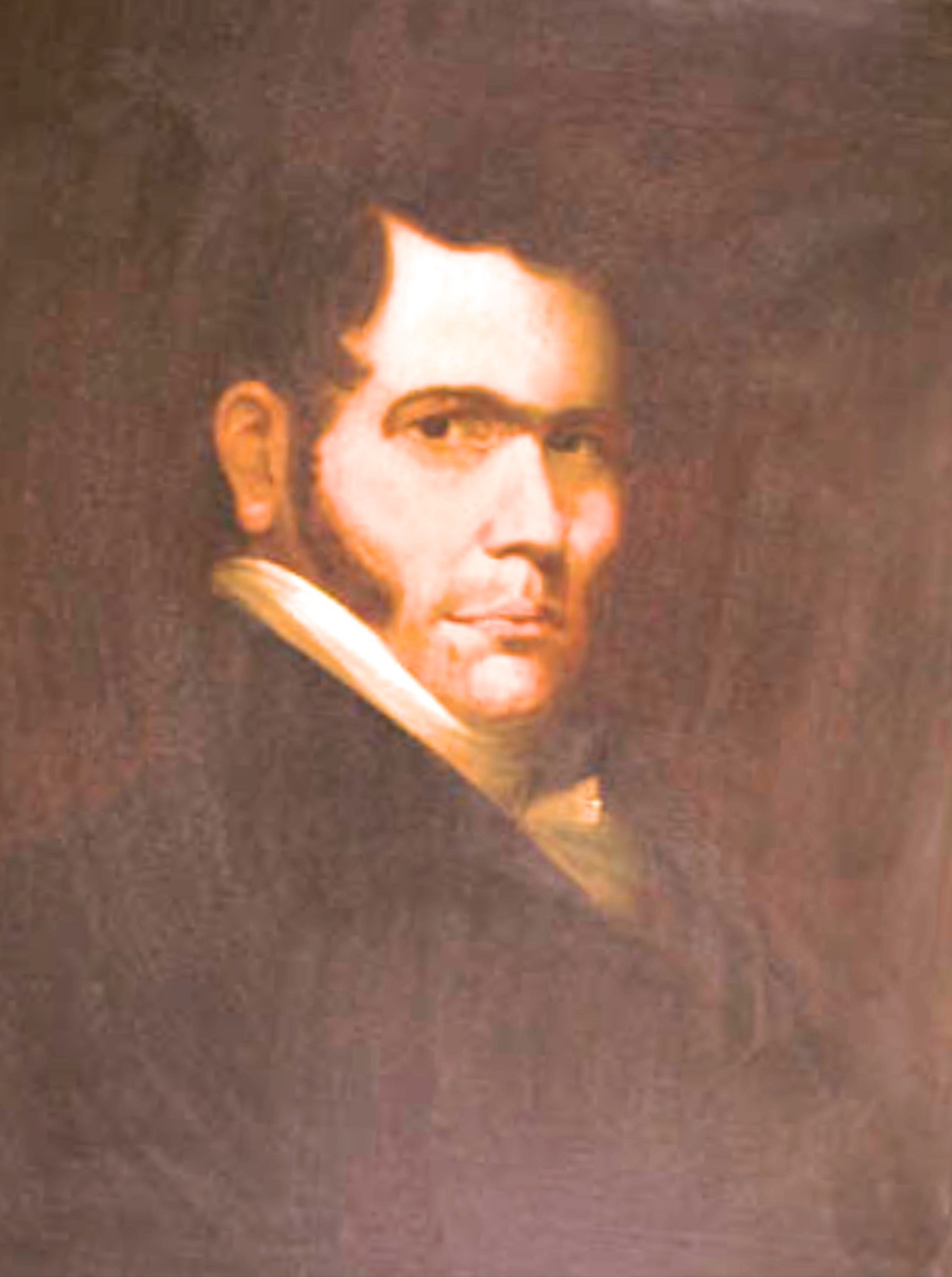 Armand Julie Beauvais (1783-1843) Justice of the Peace, Member of the Louisiana House of Representatives.